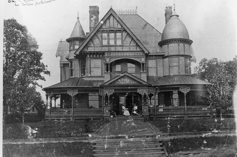 Alexander Martin Smith House, Elkin, Surrey County, North Carolina. George F. Barber, architect.